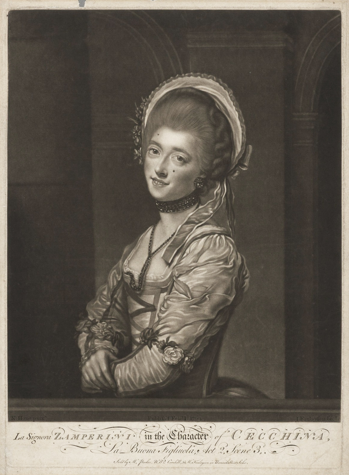 Engraving featuring Signora Zamperini in the character of Cecchina, from La buona figliuola, Act 2, Scene 3 (1769). 2011TW-1007, Harvard Theatre Collection, Houghton Library, Harvard University